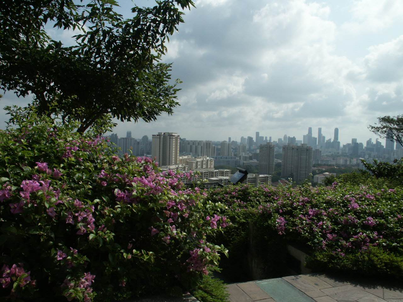 The view from Mount Faber, Singapore.